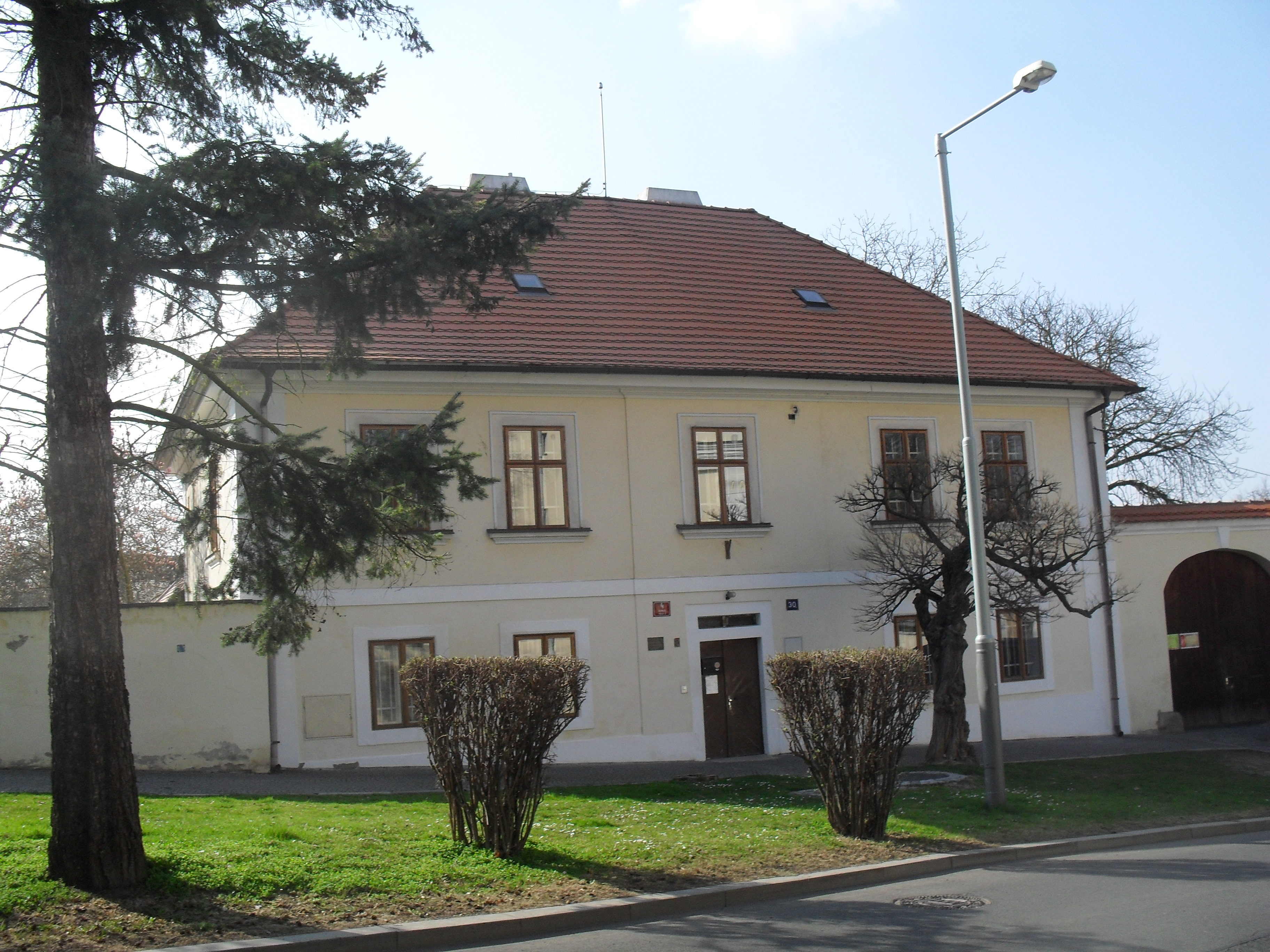 Local clergy house - Staré Bohnice